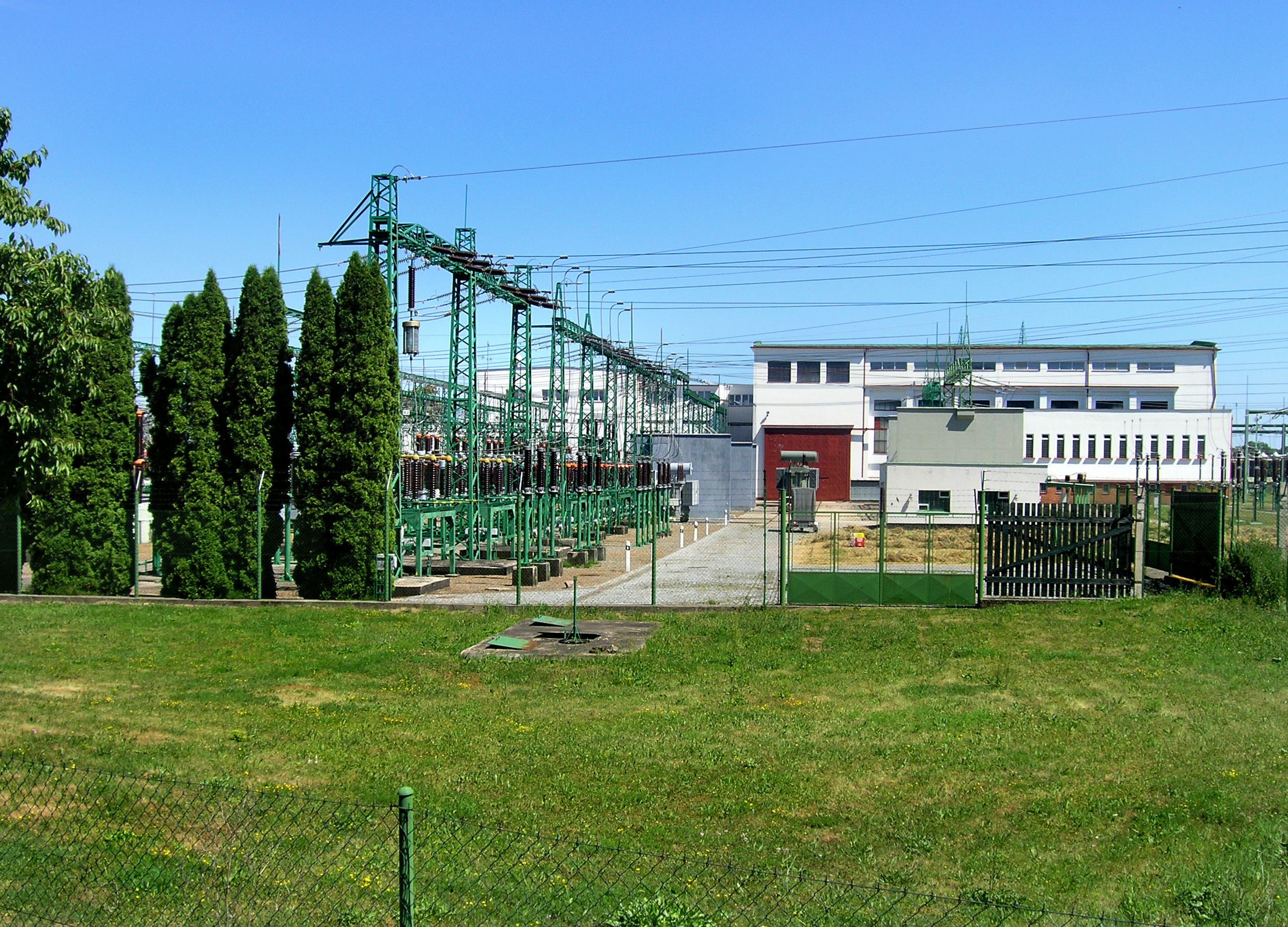 Substation in Opočínek, part of Pardubice, Czech Republic